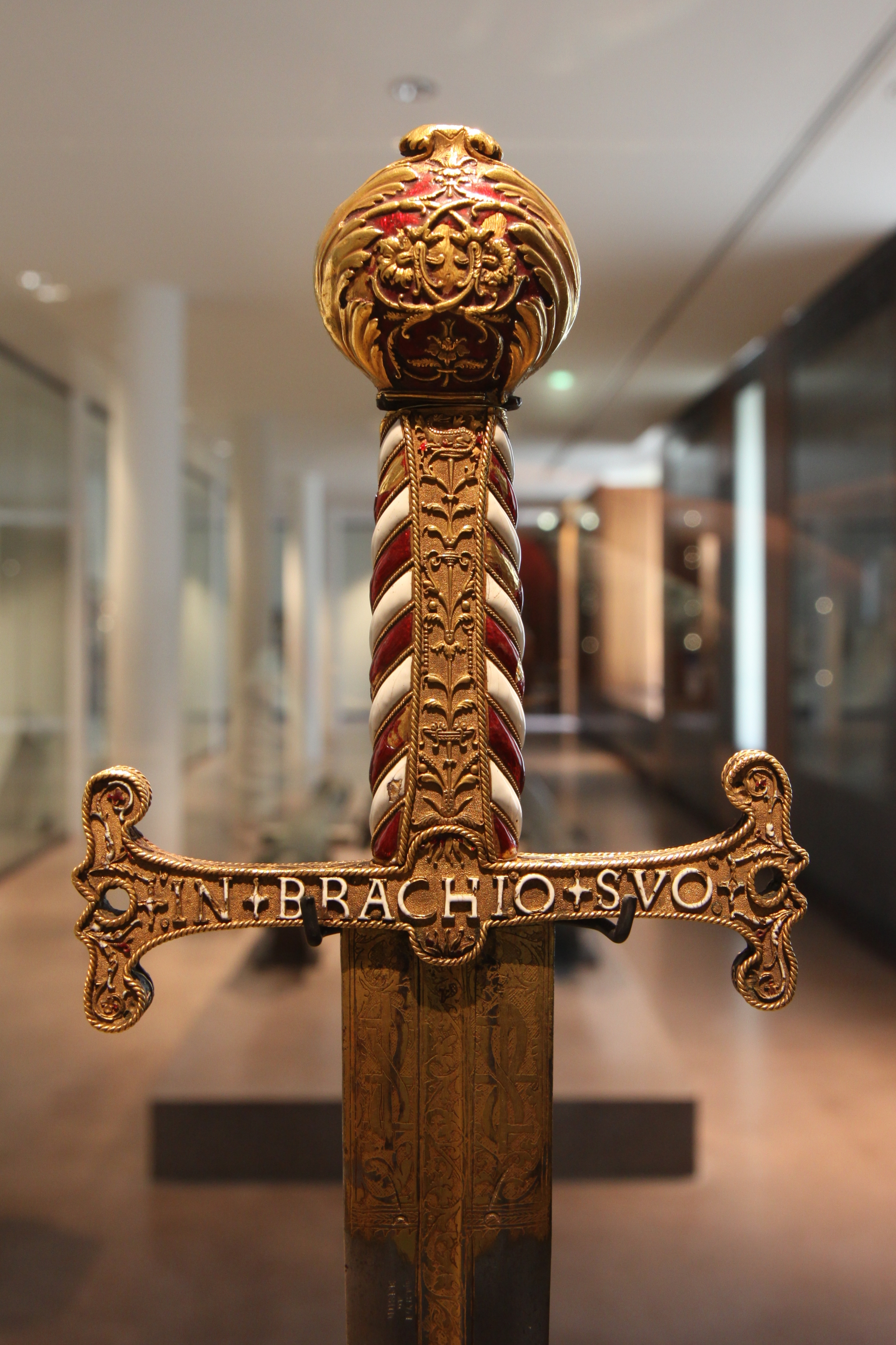 Forged in Valencia -"Antonivs me Fecit" and captured in Pavia in 1525 by Juan de Aldana.-R.A.M Catalog